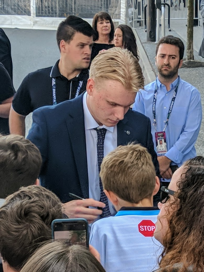 Kaapo Kakko at the 2019 NHL Entry Draft in Vancouver, British Columbia, Canada. June 2019.